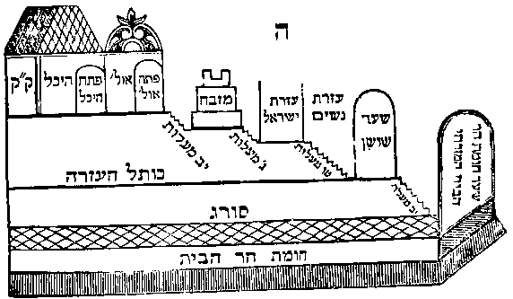 Illustration for Rambam commentary on Masechet Midot